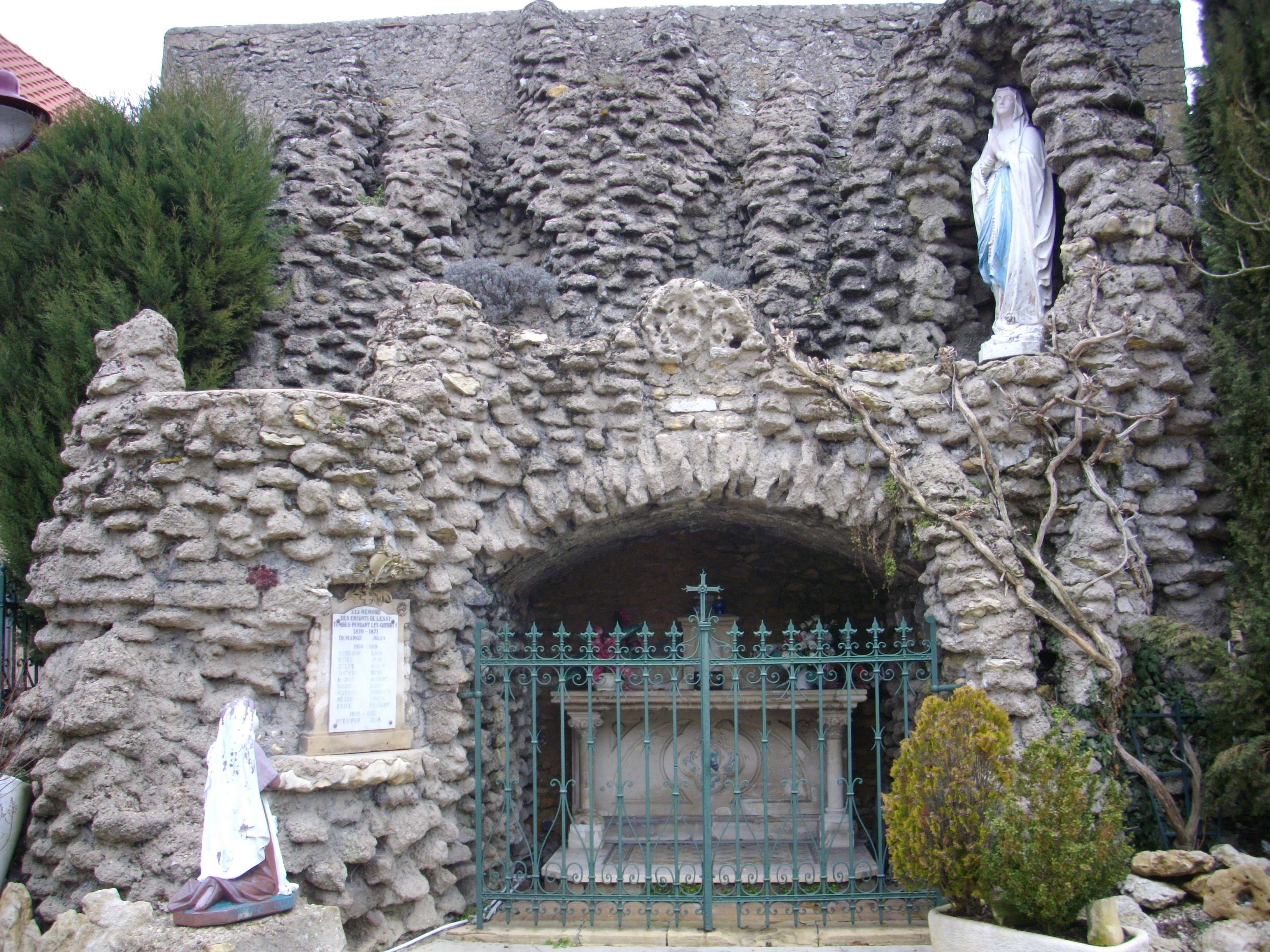 Lourdes Grottoe of Lessy (Moselle, France), near Saint Gorgonius church